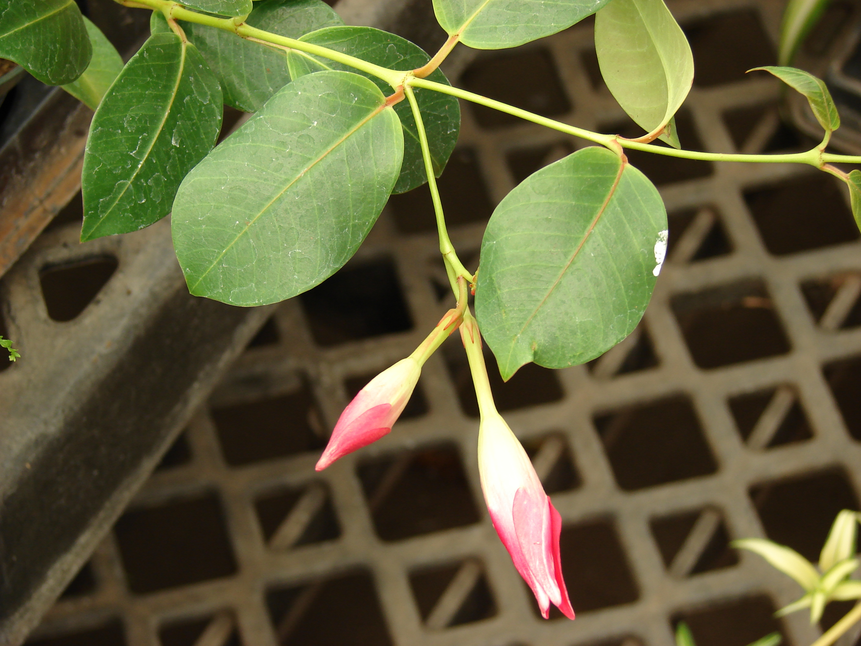 Mandevilla splendens (buds and leaves). Location: Maui, Walmart Kahului